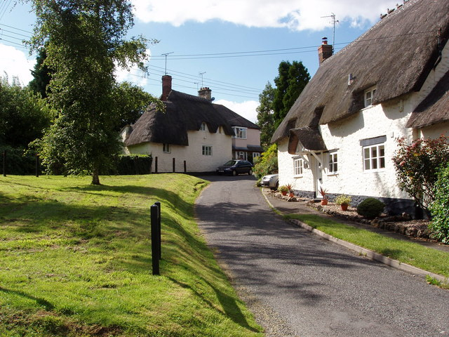 Oxford Square, Watchfield, Oxfordshire (formerly Berkshire)